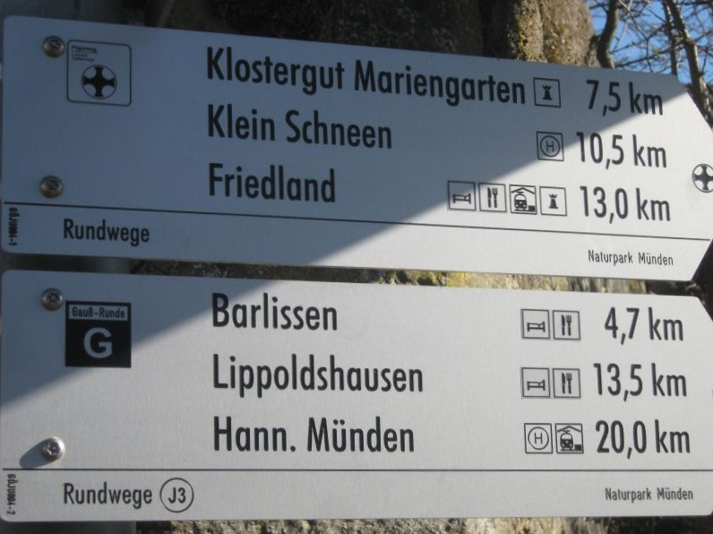 Signpost of hiking trails in Jühnde, South Lower Saxony